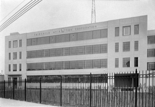 The Fairchild Aviation Corporporation building, Jamaica, New York, Jamaica Avenue façade, on 11 November 1941.